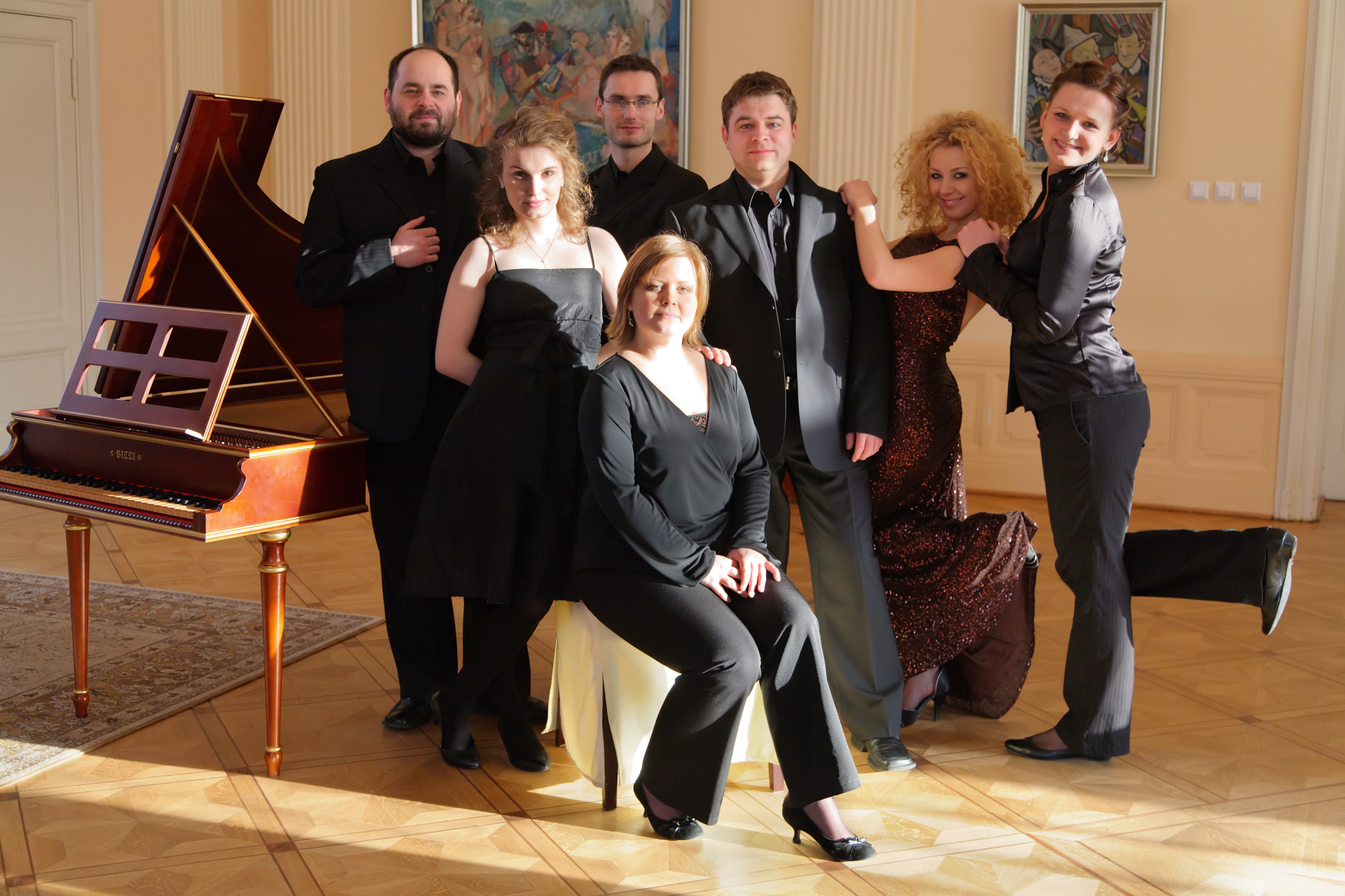 Laboranci